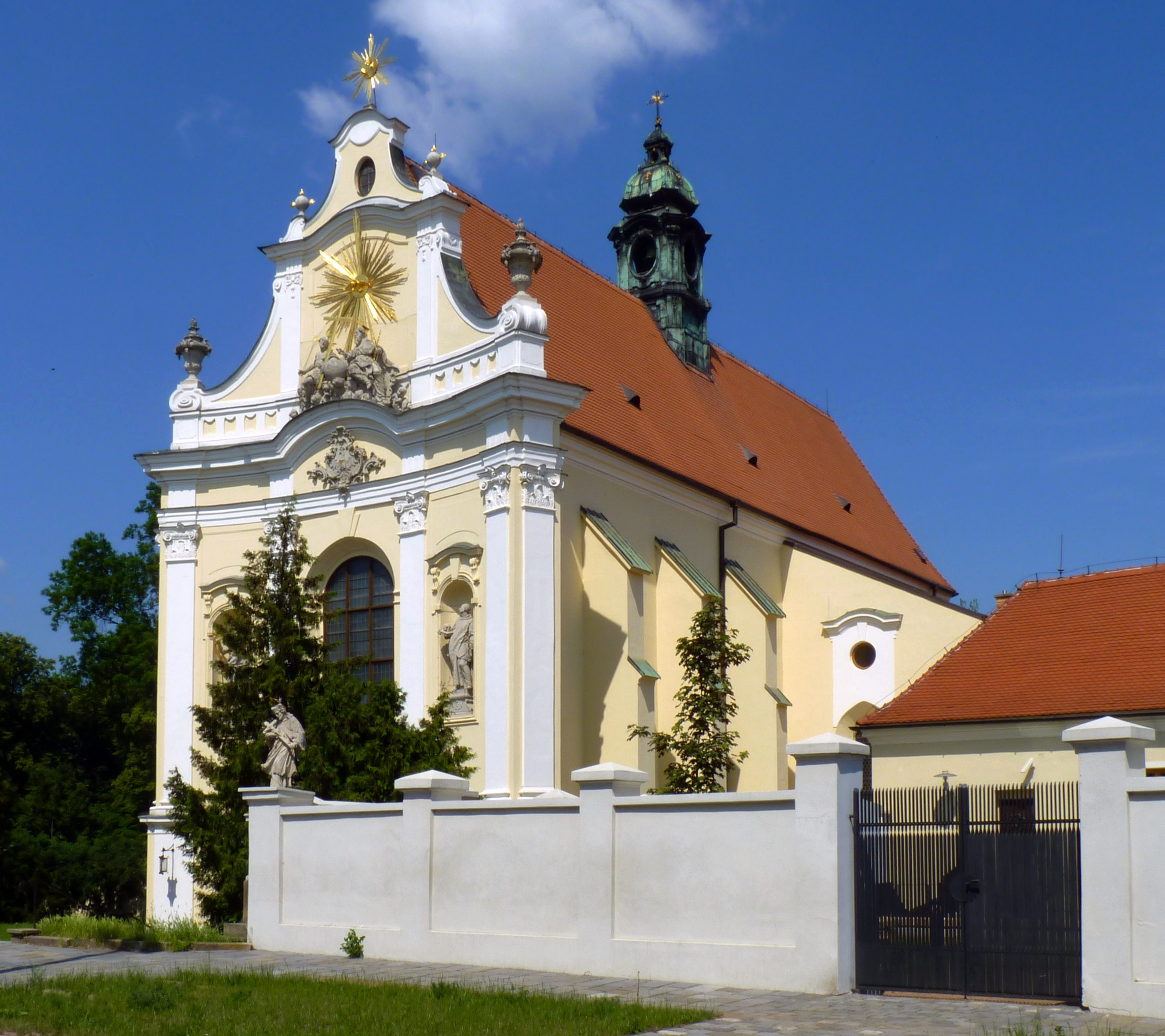 Former monastery. Brno-Královo Pole, South Moravian Region, Czech Republic